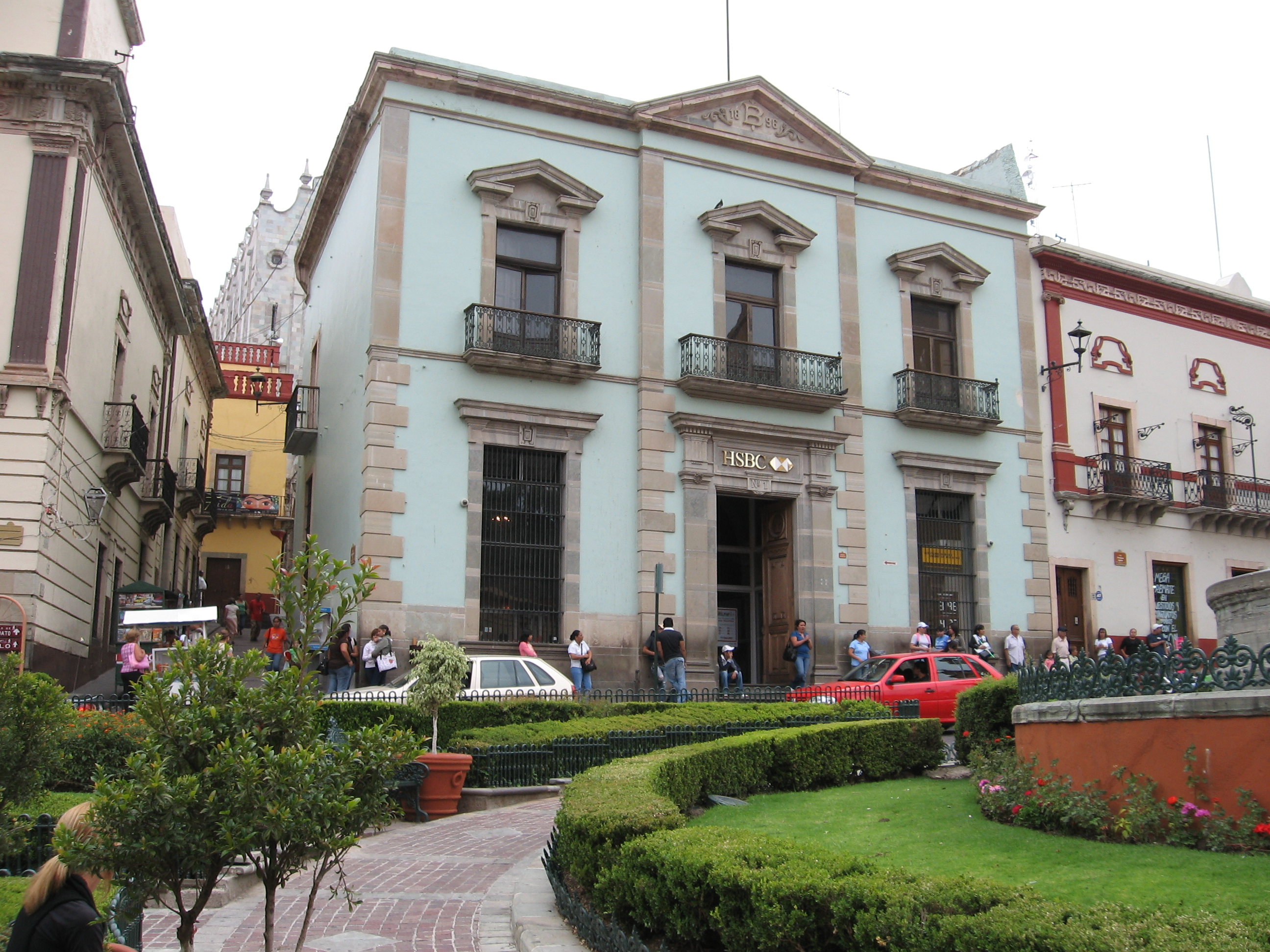 Plaza and building in Guanajuato city.